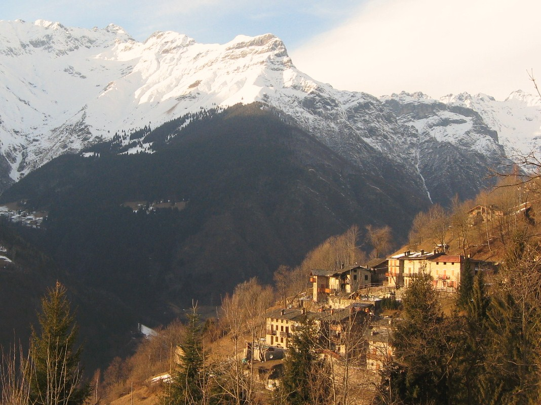 Tezzi Alti, Gandellino (Province of Bergamo), Italy